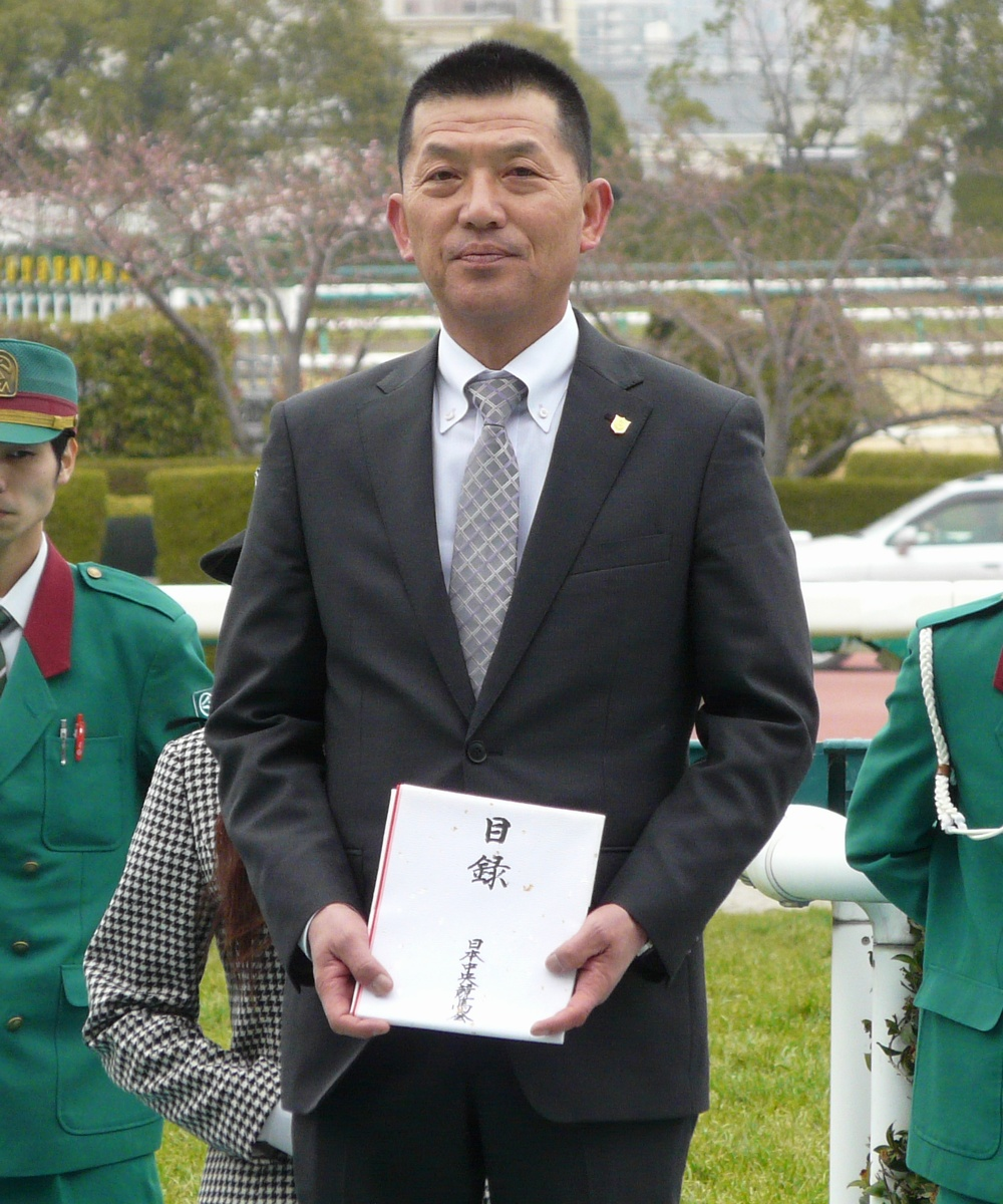 Kazuhide-Sasada20110402